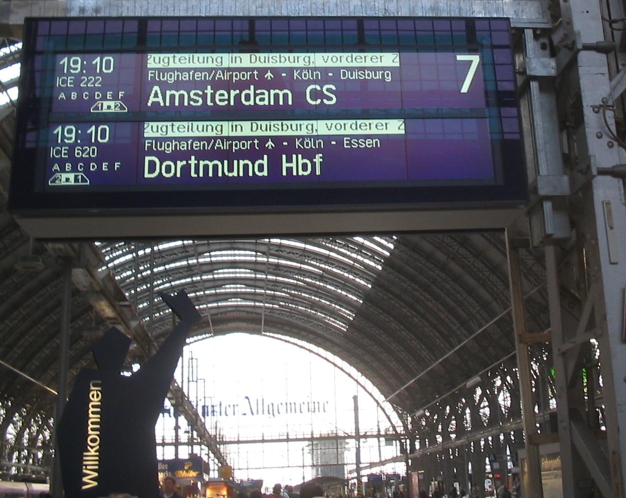 A display at Frankfurt Hauptbahnhof announces an ICE International train that will be split up in the course of the journey.